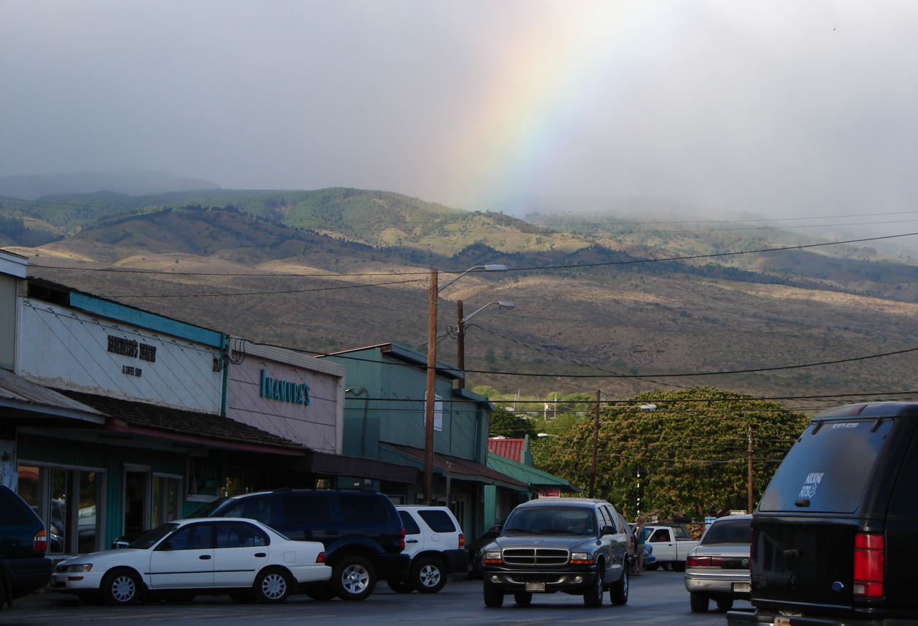 I took this photo on July 7, 2006. Background shows rainbow on East Molokai Volcano (summit is known as Kamakou).